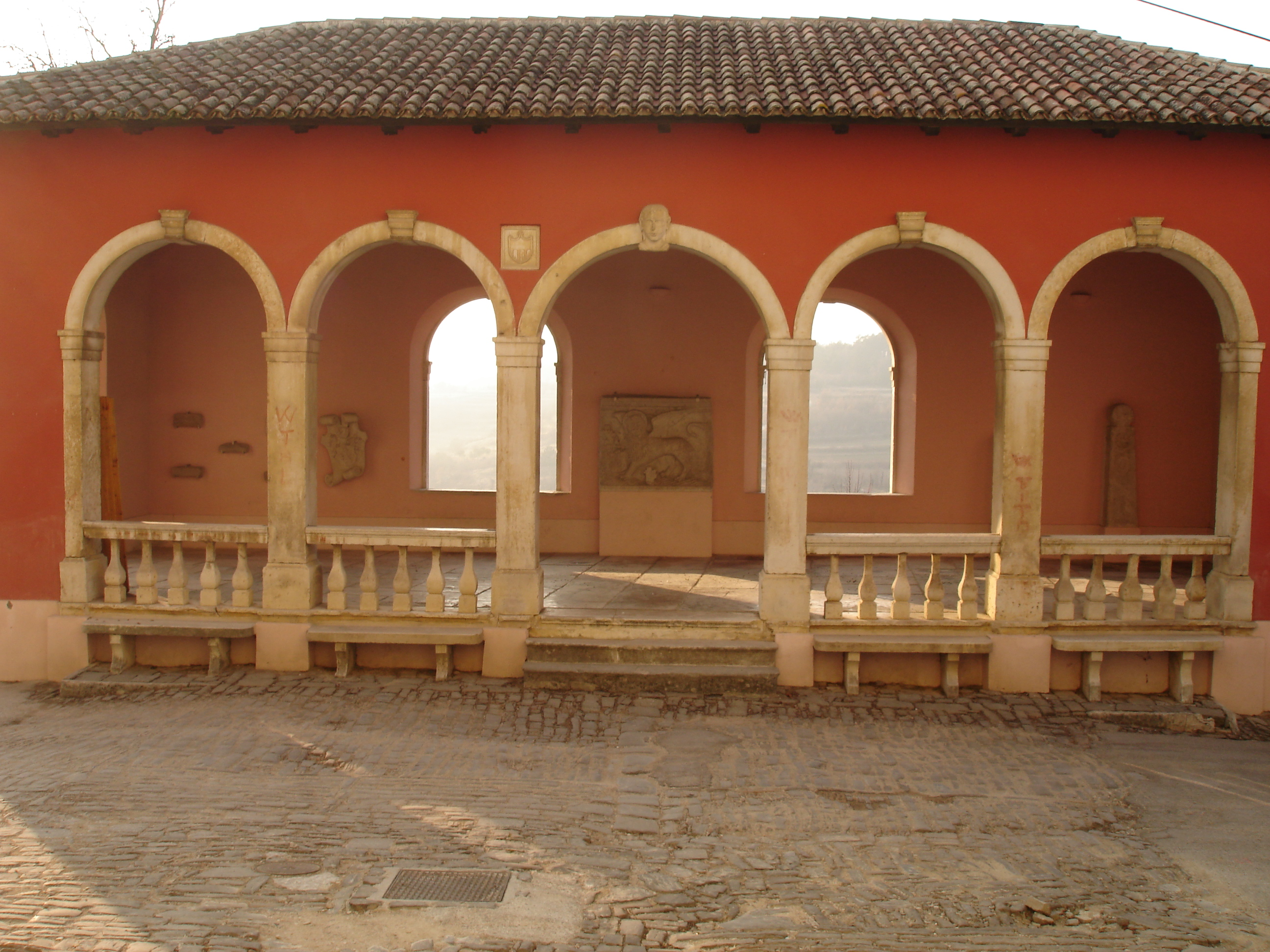 Oprtalj Lapidarium